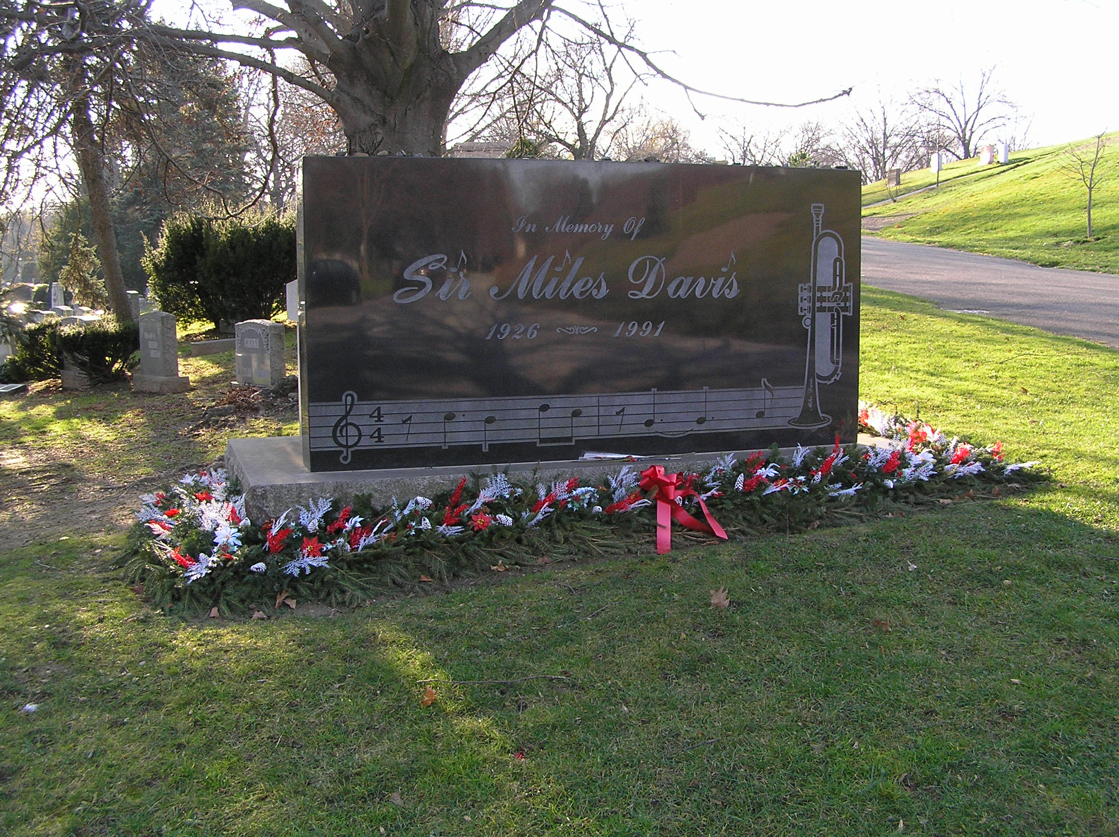 The grave of Sir Miles Davis in Woodlawn Cemetery, Bronx, NY